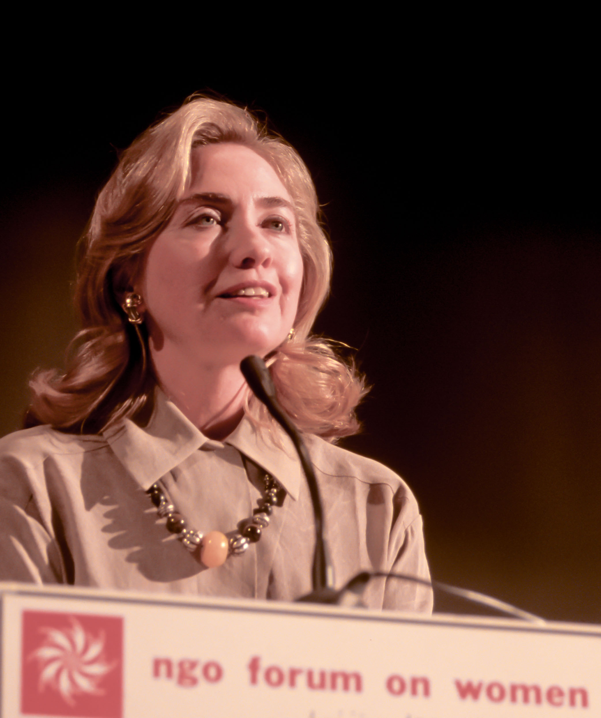 1995 NGO Forum on Women and the U.N. Fourth World Conference on Women First Lady Hillary Rodham Clinton Huairou China